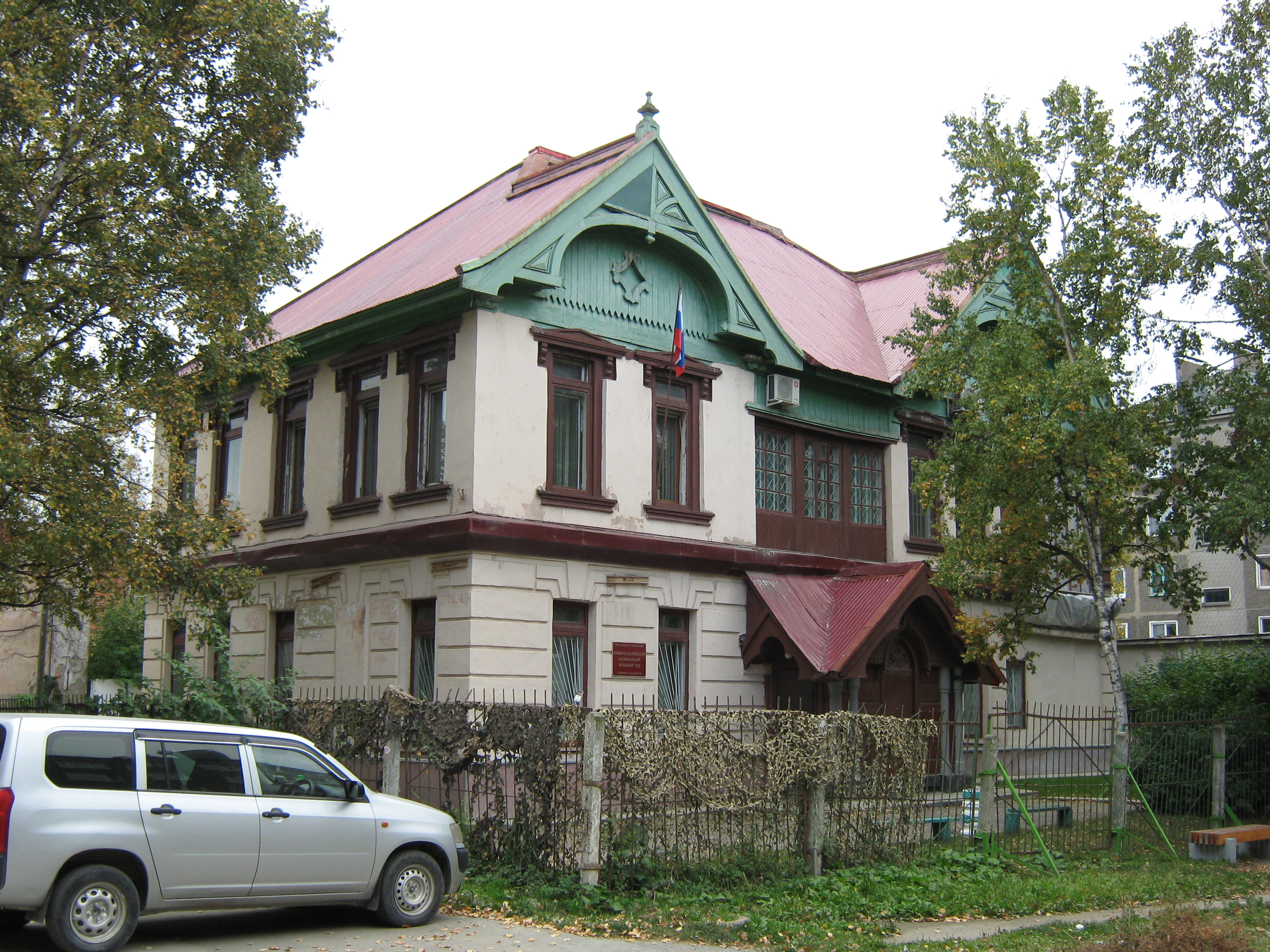 The former residence of the commander of Karafuto guard units in Toyohara (nowdays Yuzhno-Sakhalinsk, Russia). Built in 1908. Later used by the Karafuto Museum. After moving of the museum to the new premises, the building was used by the Japanese military police. The oldest building in Yuzhno-Sakhalinsk. The Yuzhno-Sakhalinsk Military Court is located in the building nowdays.